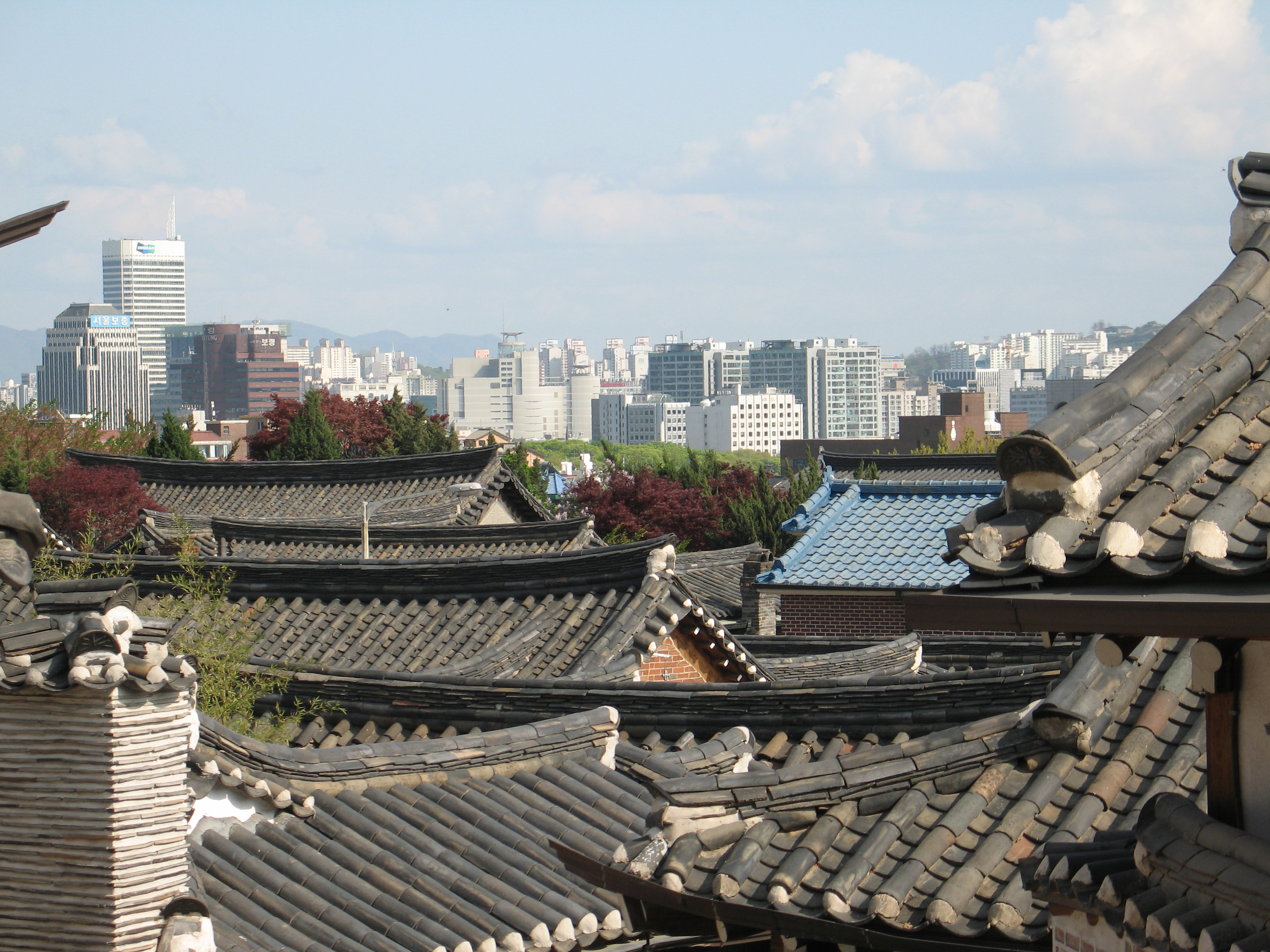 Bukchon Hanok Village in Jongno-gu, Seoul, South Korea